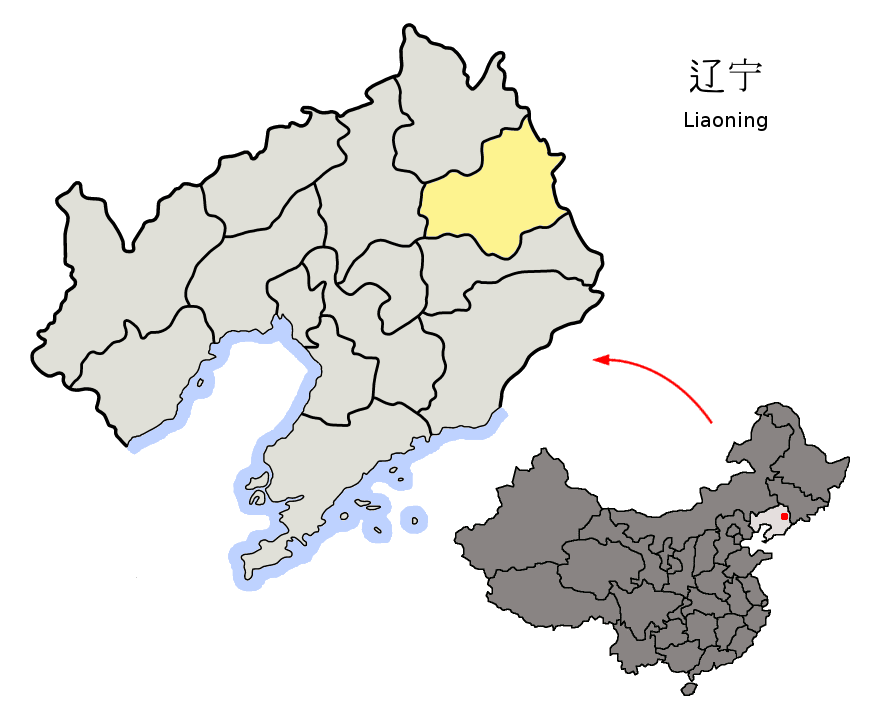 Location of Fushun Prefecture (yellow) within Liaoning Province of China Map drawn in november 2007 using various sources, mainly : Liaoning Province administrative regions GIS data: 1:1M, County level, 1990 Liaoning Counties map from